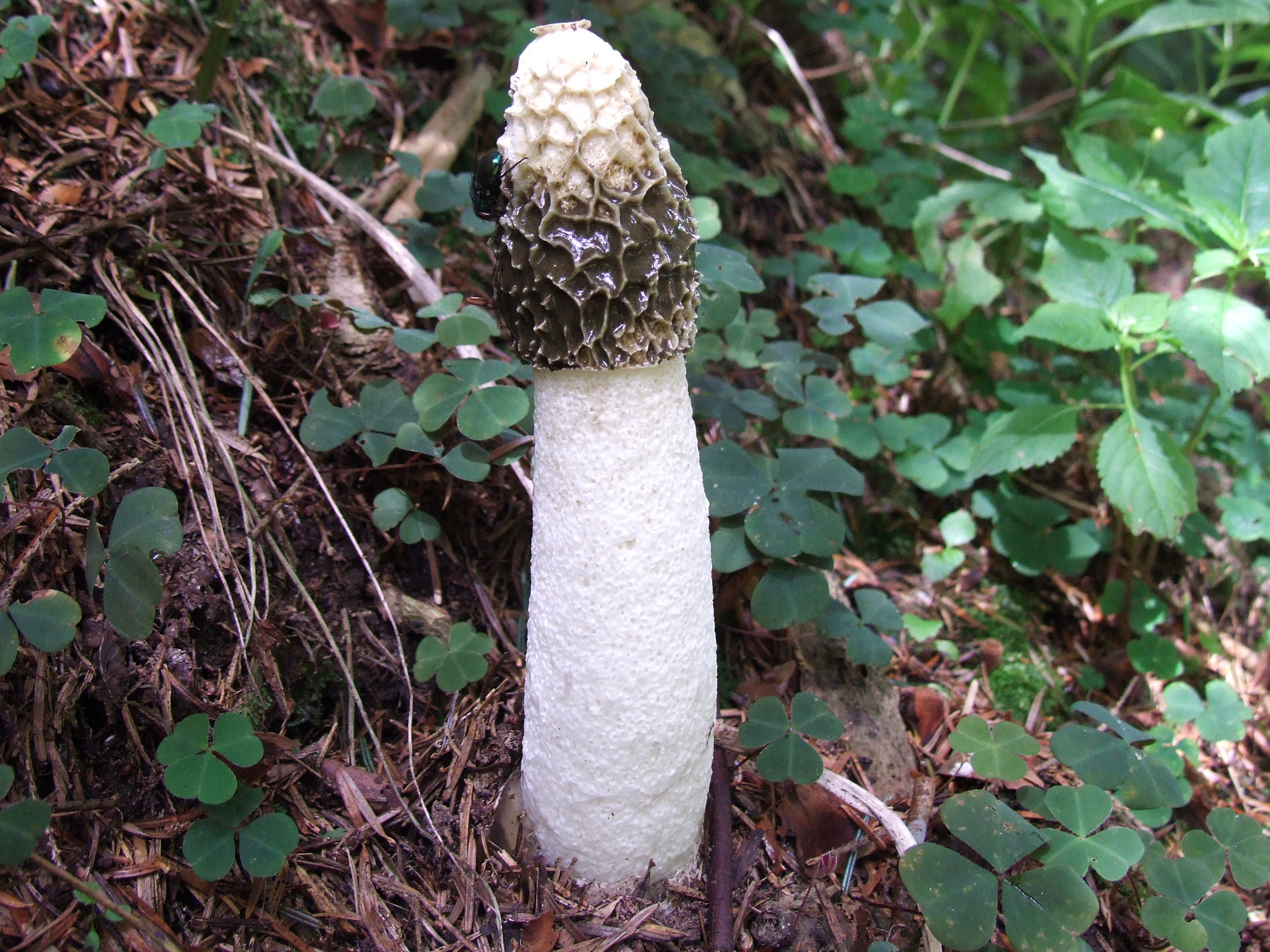 Phallus impudicus